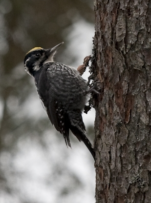 Cropped version of Three-toed Woodpecker Photoworkshop with Marco de Paauw: in the Bavarian Forest (Bayerischer Wald) in Germany